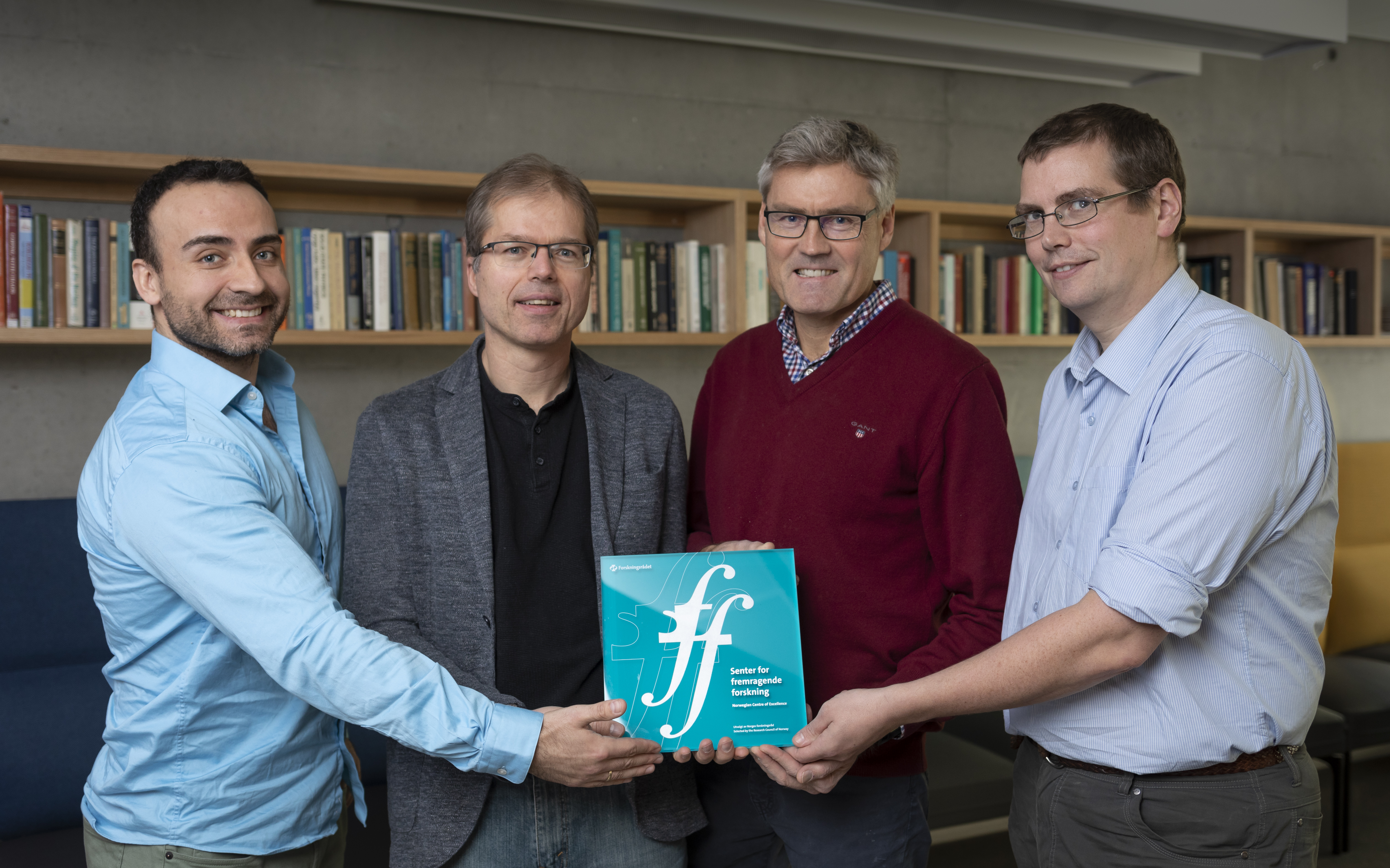 The center management (as of 2020) consists of four primary investigators, left to right: Professor Jacob Linder; Professor Arne Brataas (QuSpin's director); Professor Asle Sudbø and Professor Justin Wells.